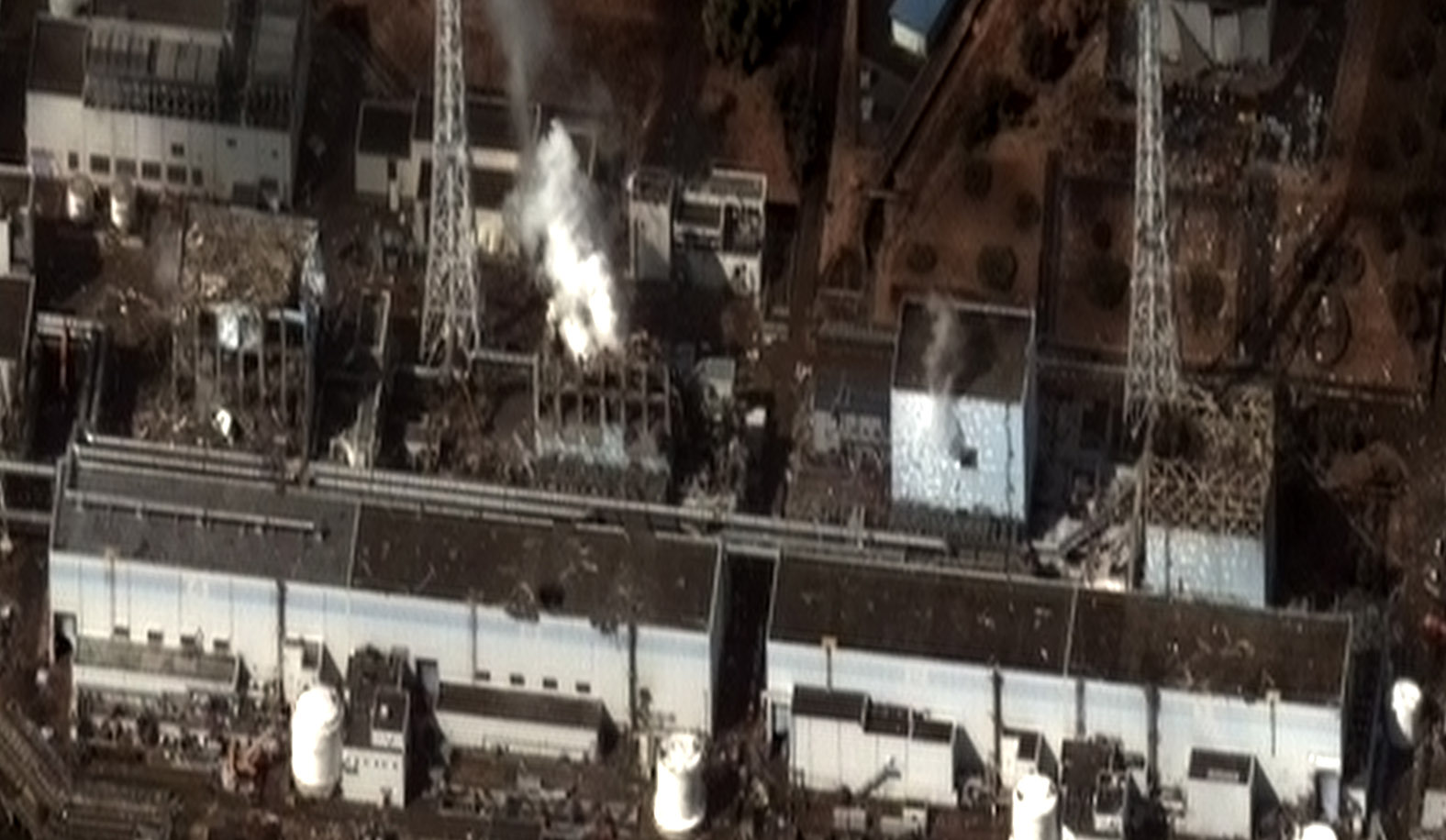 The Fukushima I Nuclear Power Plant after the 2011 Tōhoku earthquake and tsunami. Reactor 1 to 4 from right to left.